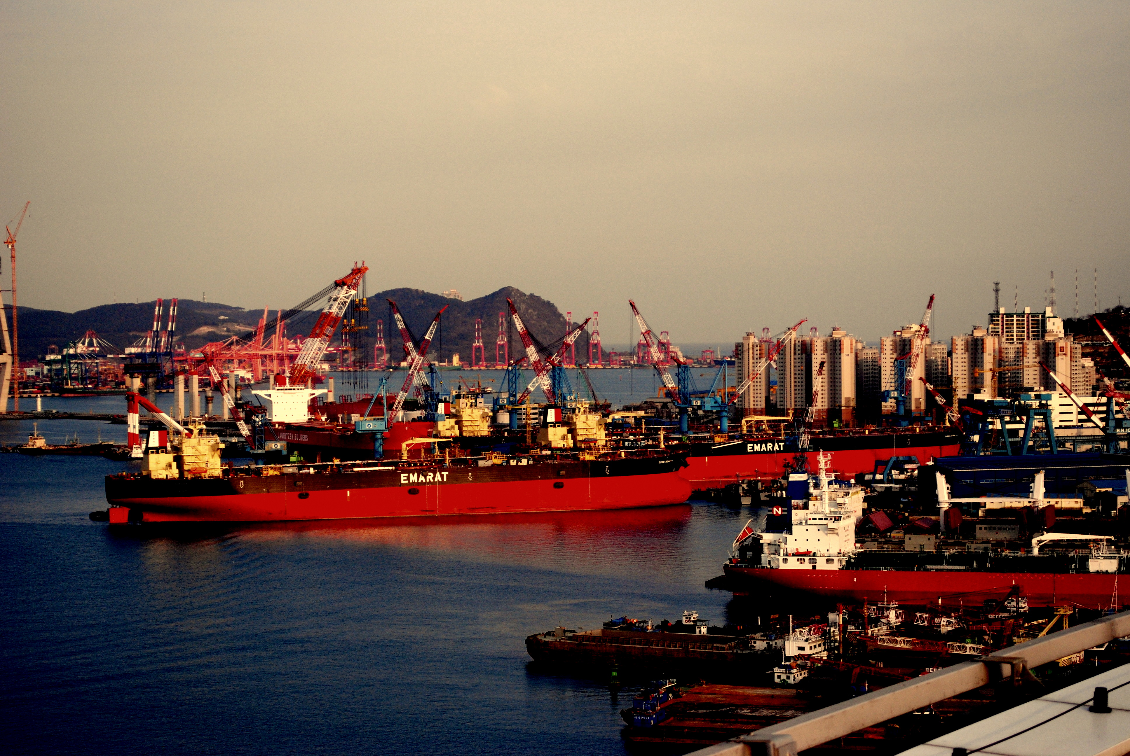 Ships in Busan, South Korea. Photograph from Flickr; author Raíssa Ruschel; license of cc-by-2.0.